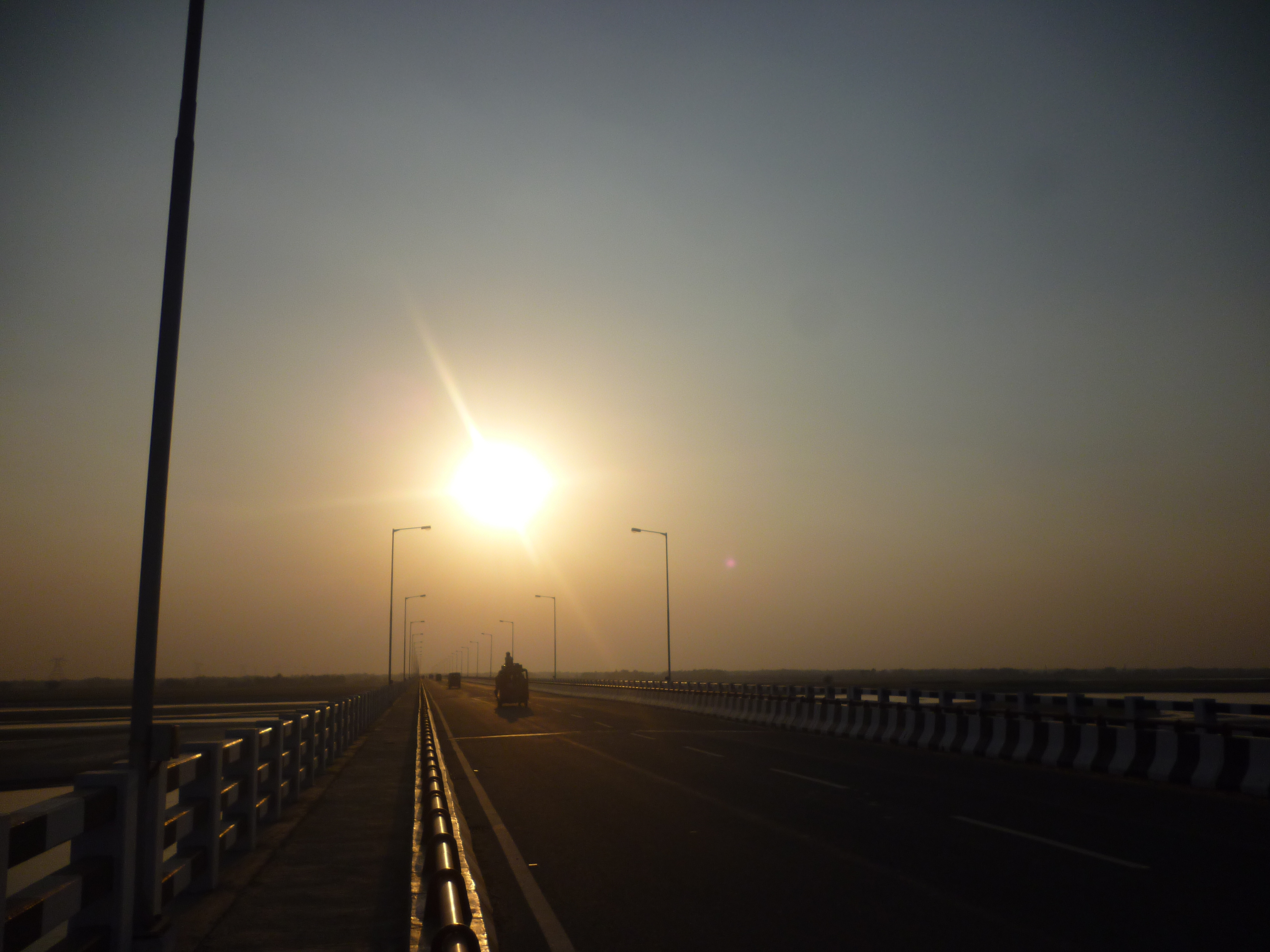 Kosi Bridge at Baluwaha Ghat near Saharsa Town